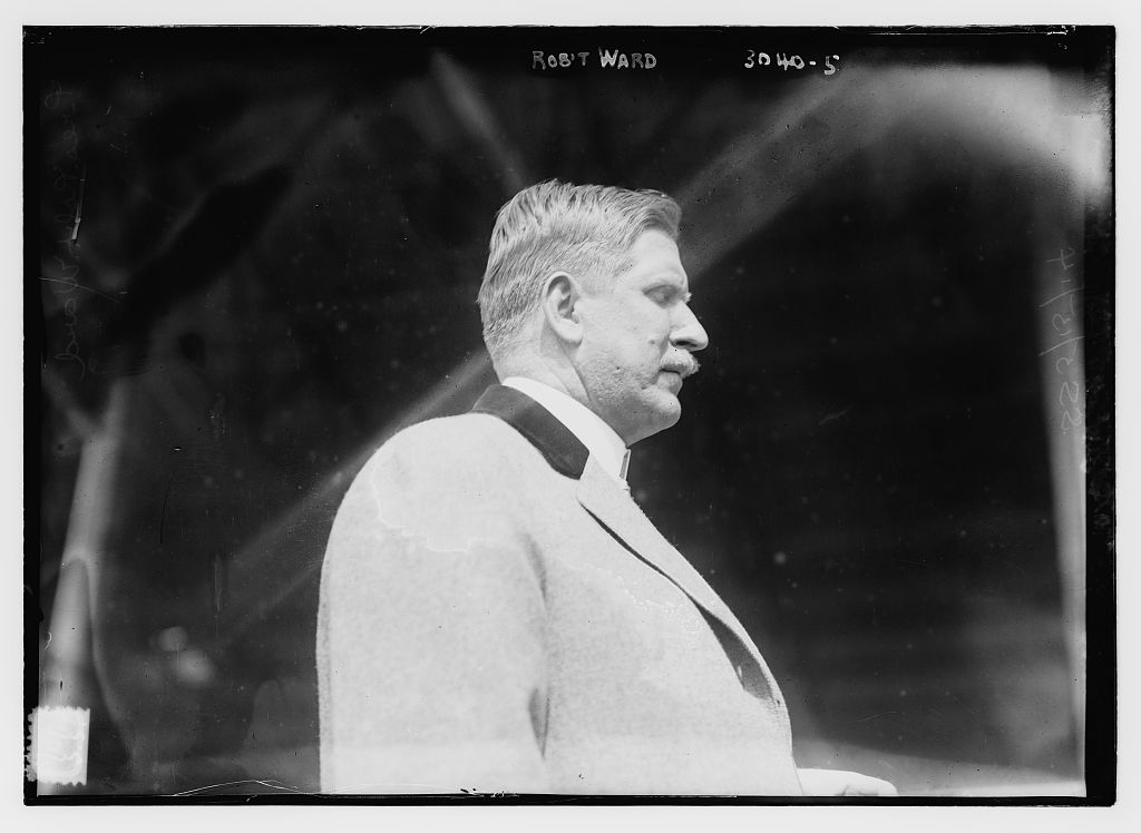 Robert Ward of the Brooklyn Tip Tops circa 1914 Bain News Service,, publisher. Rob't Ward [between ca. 1910 and ca. 1915] 1 negative : glass ; 5 x 7 in. or smaller. Notes: Title from unverified data provided by the Bain News Service on the negatives or caption cards. Forms part of: George Grantham Bain Collection (Library of Congress). Format: Glass negatives. Repository: Library of Congress, Prints and Photographs Division, Washington, D.C. 20540 USA, General information about the Bain Collection is available at Persistent URL: Call Number: LC-B2- 3040-5